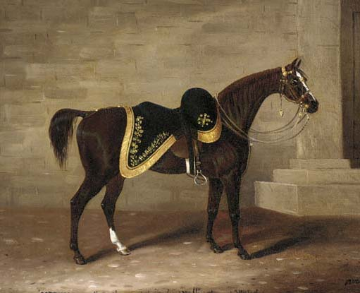 Copenhagen, the Duke of Wellington's battle charger. He was a three-quarter Thoroughbred, one-quarter Arabian.